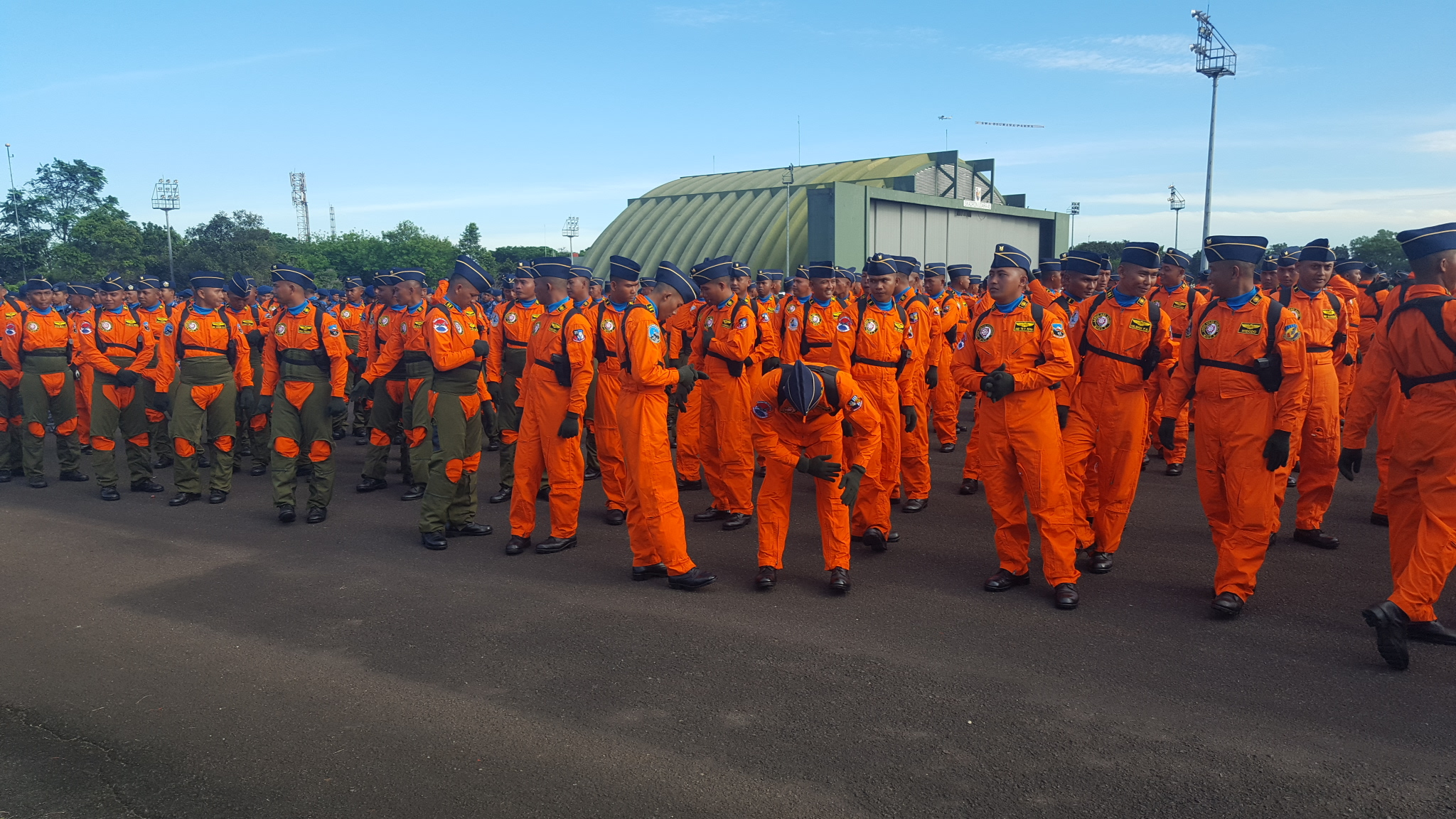 Indonesian Air Force mechanics and aviators